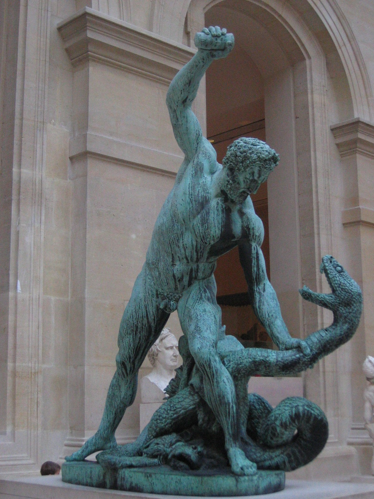 Hercule combattant Achéloüs métamorphosé en serpent (Hercules fighting Acheloos transformed into a snake). Bronze, cast by Carbonneaux, 1824. A plaster model was exhibited at the Salon of 1814.